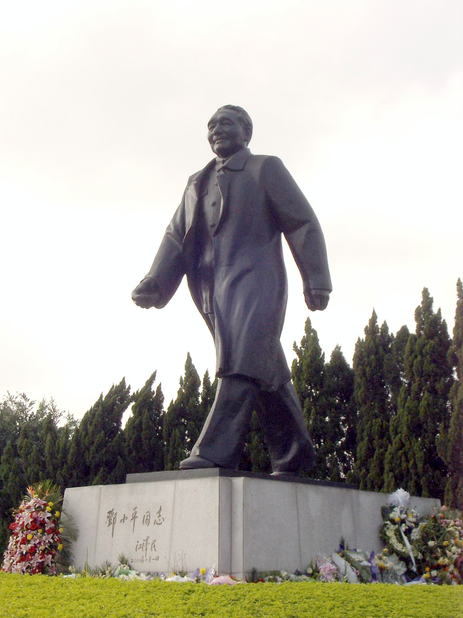 Statue of Deng Xiaoping in the mountain top square in Lianhua Mountain Park, Shenzhen